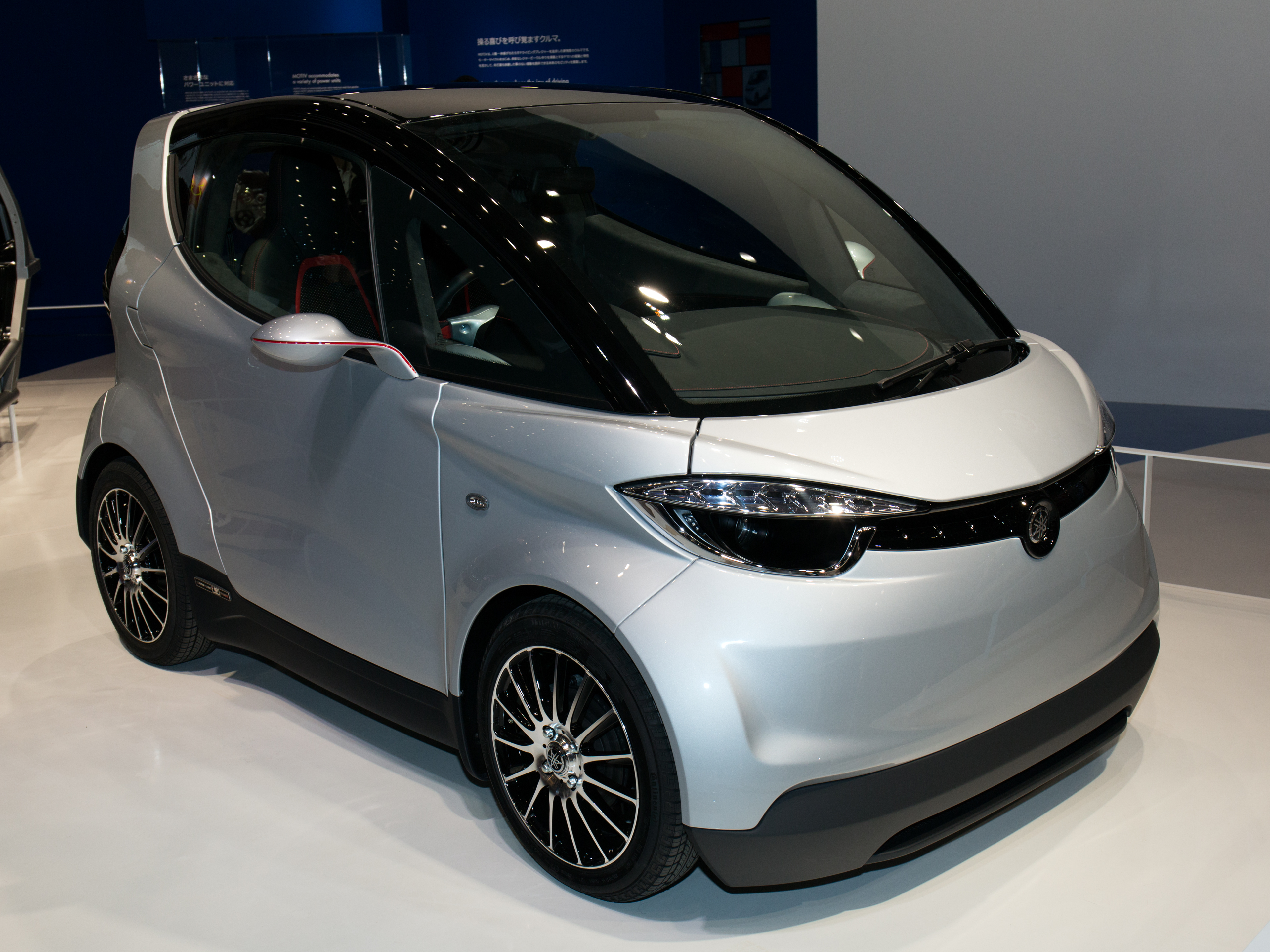 Tokyo Motor Show 2013: Yamaha Motiv